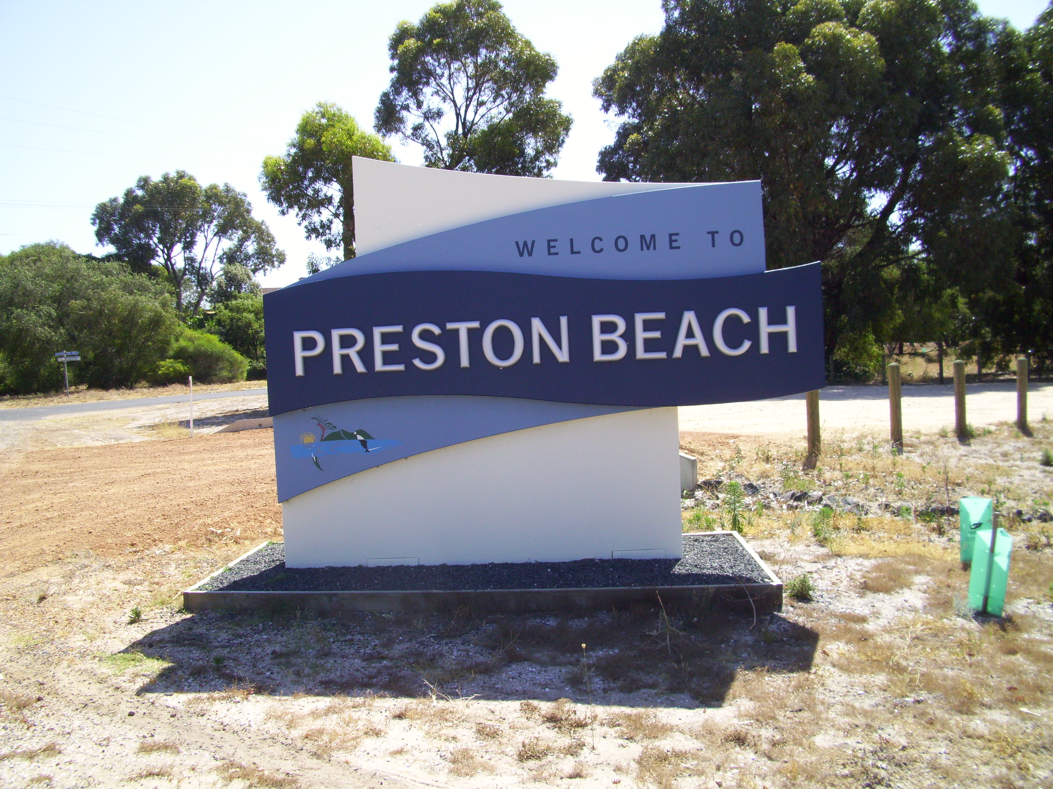 Welcome to Preston Beach sign, corner Mitchell Road and Preston Drive, Preston Beach, Western Australia